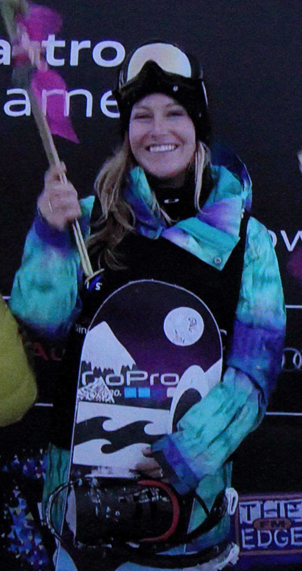 Jamie Anderson, winner of the World Cup in slopestyle at Cardrona 2013